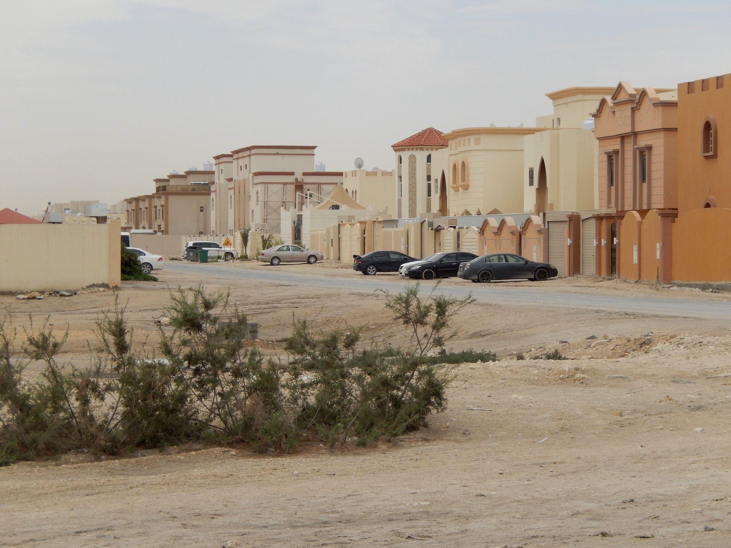 A residential area in Al Khor (southern part of the town), Qatar. Looking west from Al Nouf Street